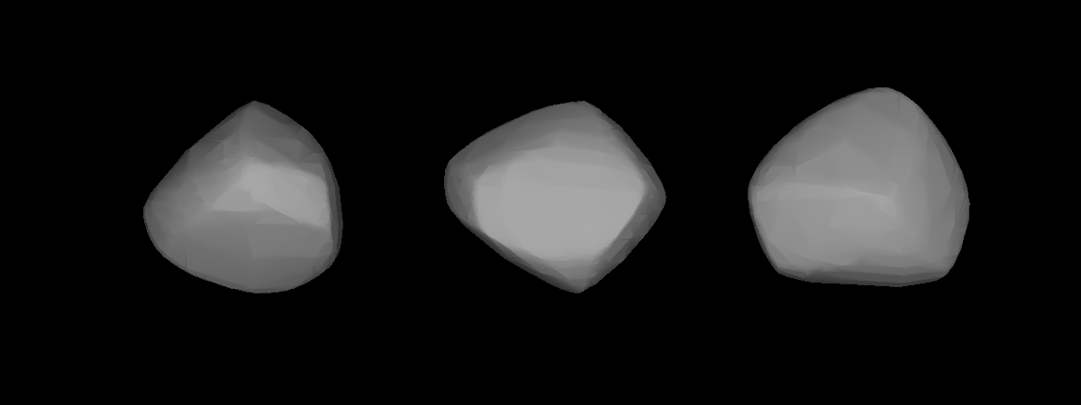 A three-dimensional model of 345 Tercidina that was computed using light curve inversion techniques.